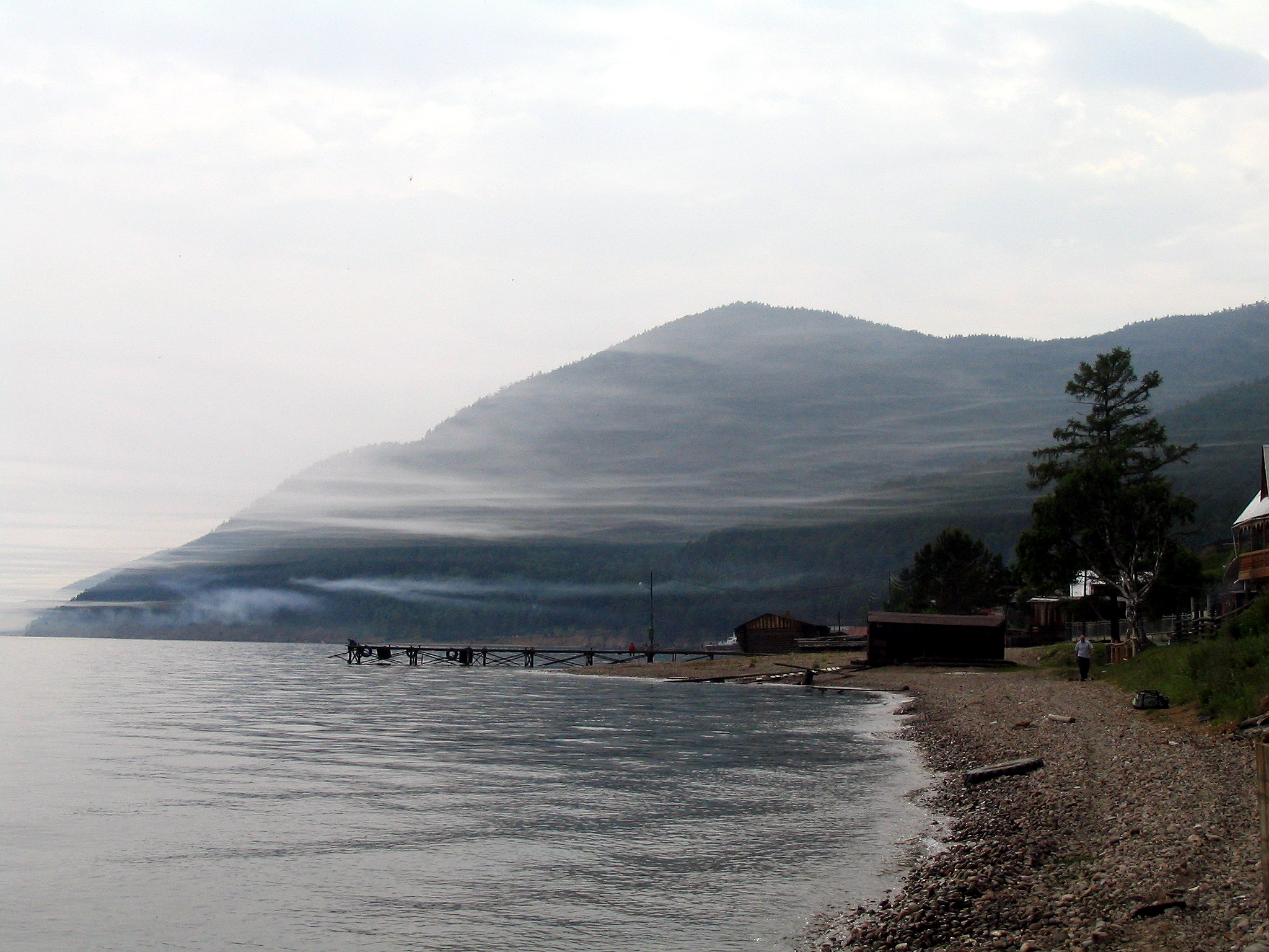 Lake Baikal at Bolshoi Koty